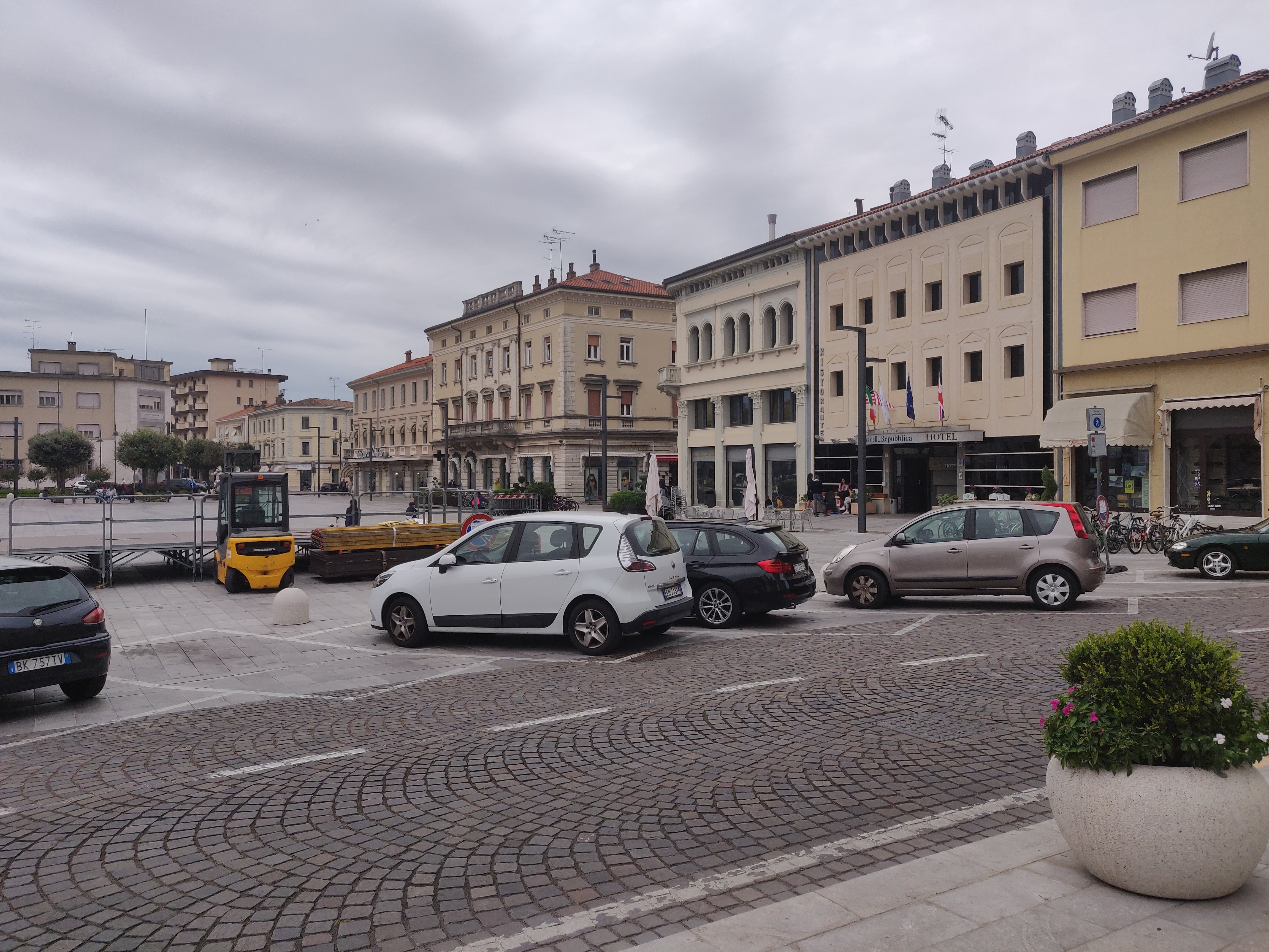 Monfalcone